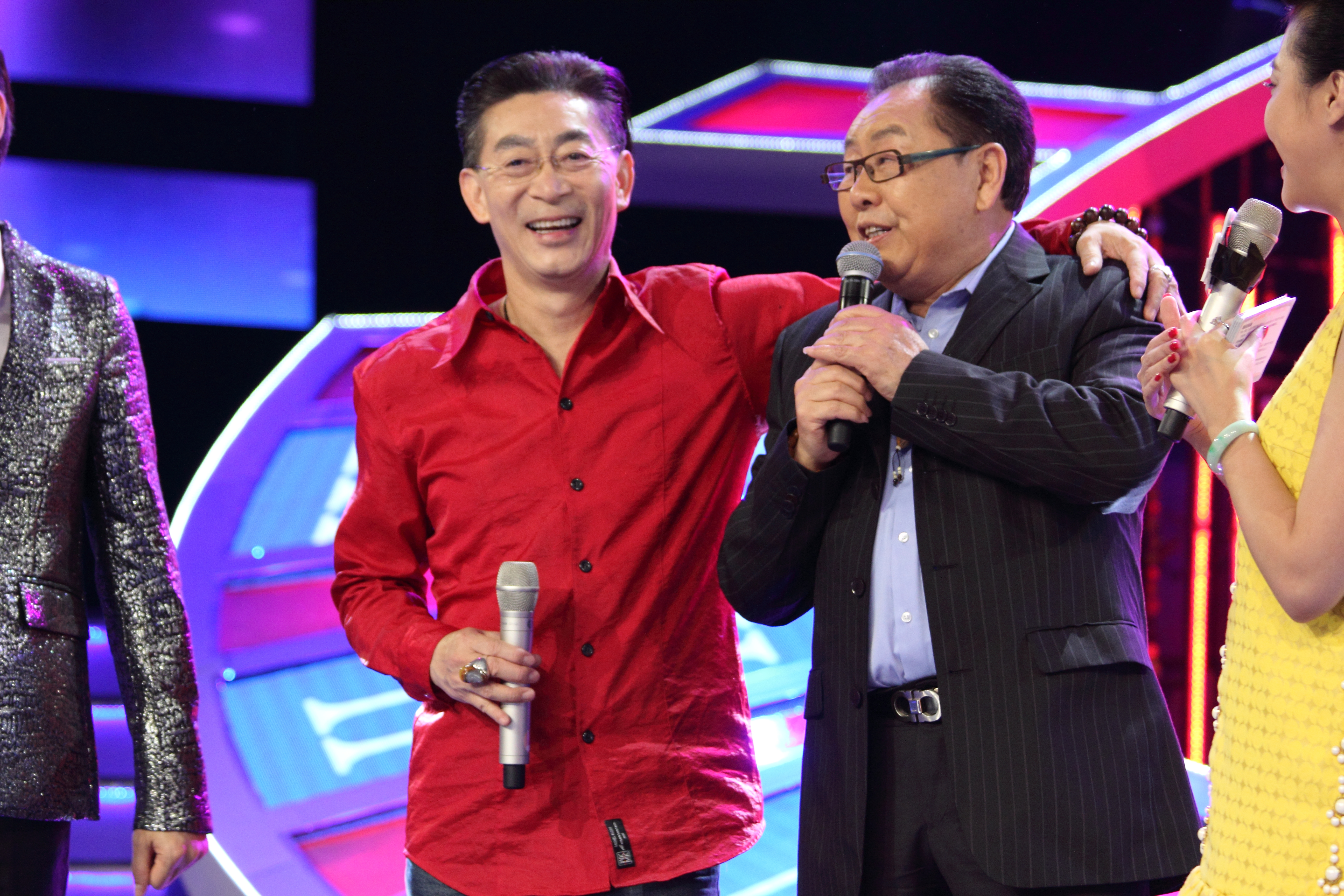 This photo was taken on the studio of Chinese entertainment show Star Reunion. In this episode, four actors of the popular TV drama Journey to the West(1986) were invited.中文（中国大陆）: 这张图片于河北卫视《明星同乐会》的演播室拍摄，这集邀请了1986年电视剧《西游记》的演员和导演。